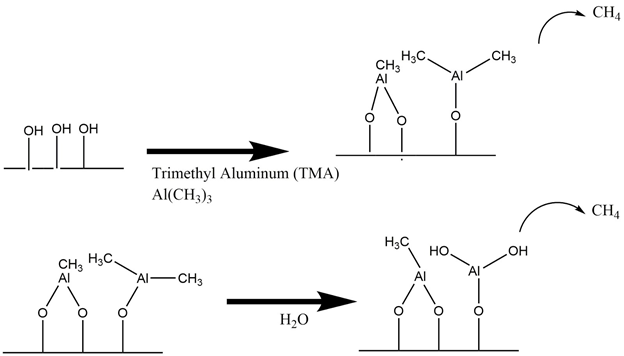 The proposed reaction mechanism for Al2O3 ALD processes